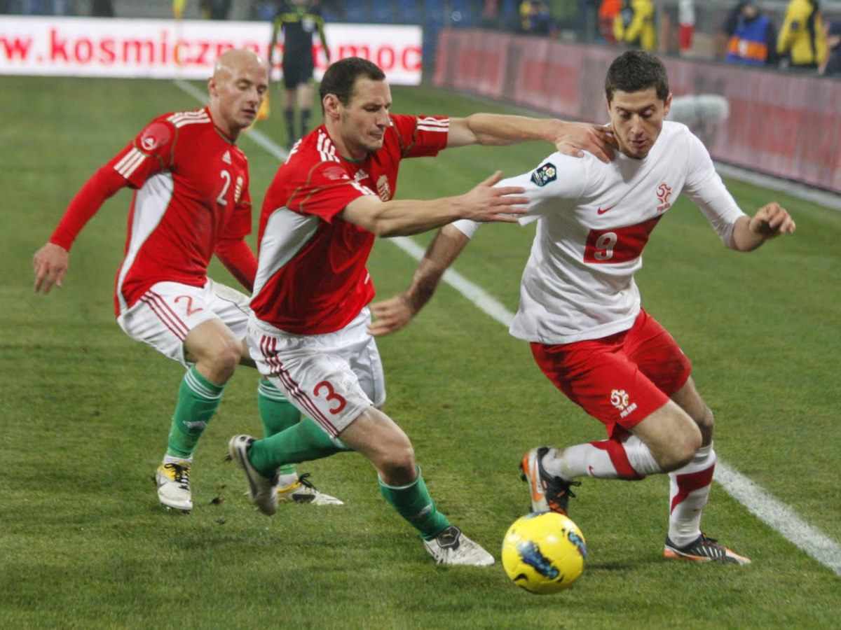 Polish football player Robert Lewandowski (and Hungarians: 2. József Varga, 3. Vilmos Vanczák